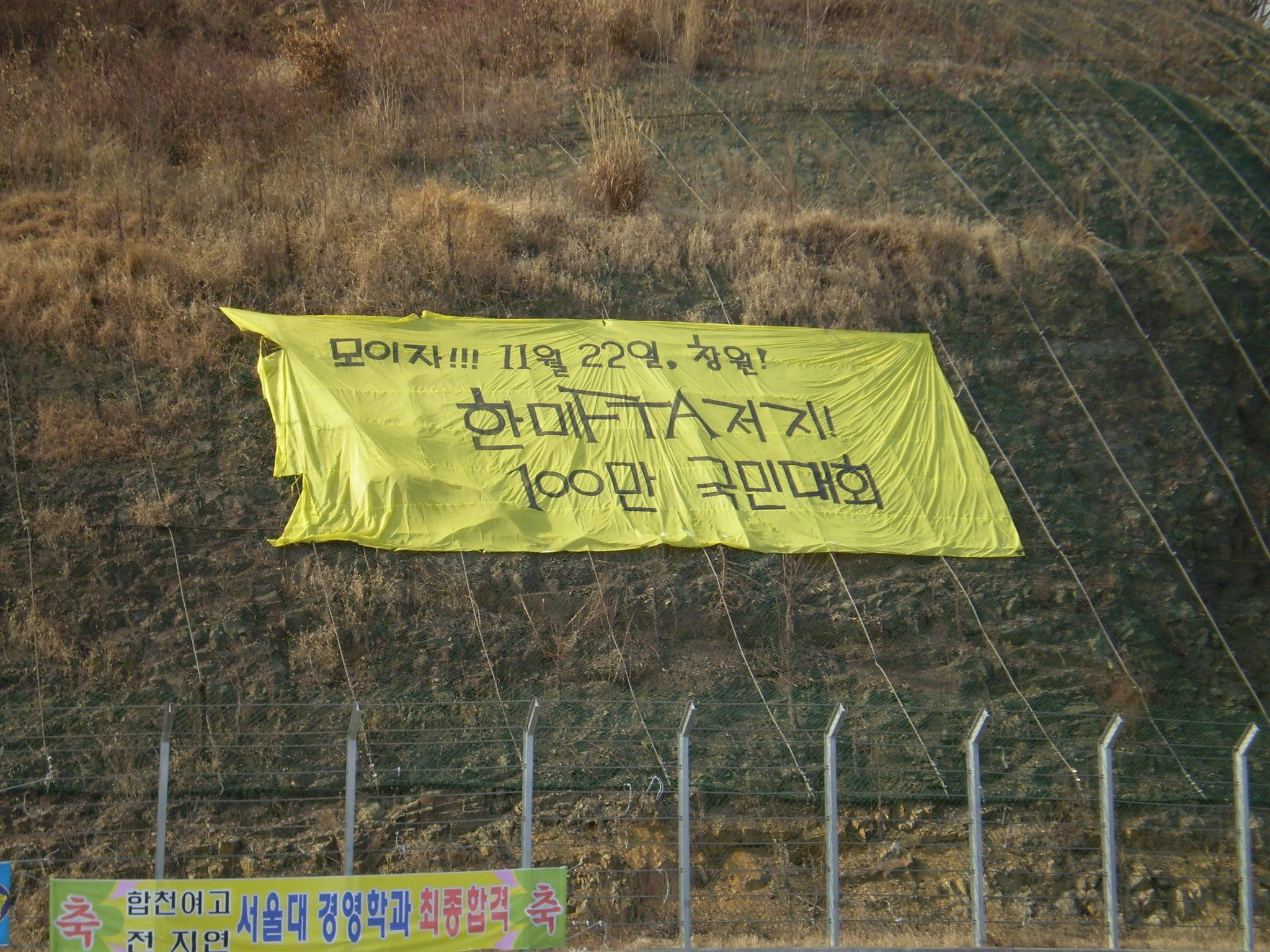 Banner opposing the free trade agreement between the US and South Korea in Hapcheon, Gyeongsangnam-do, South Korea.